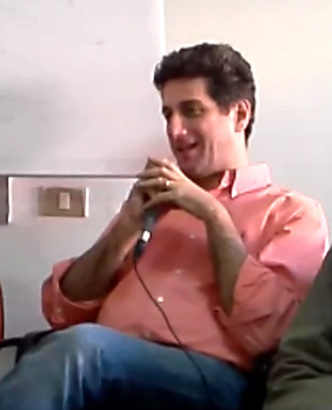 Italian film criticist